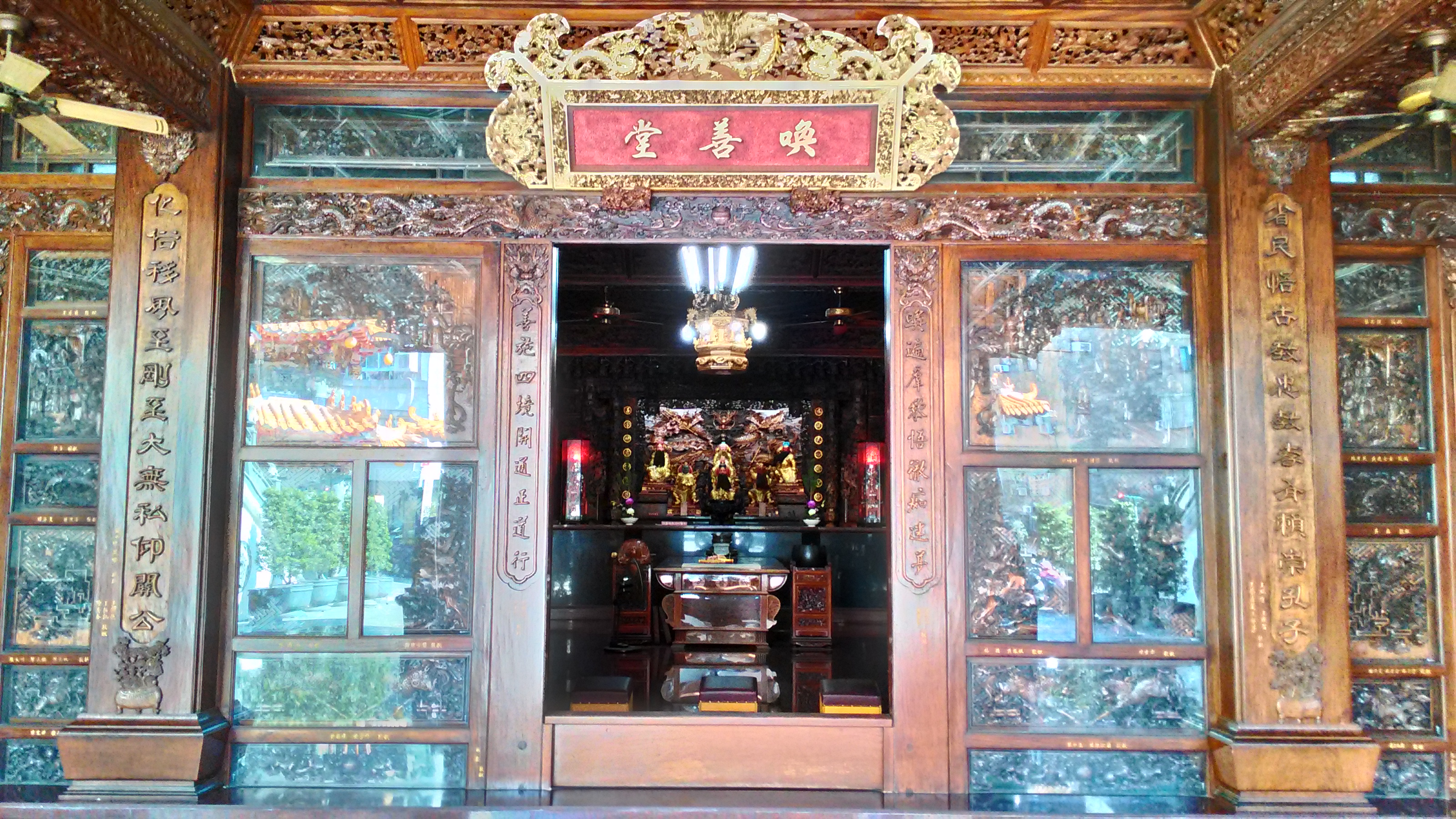 鳳邑豁落靈官殿王天君廟喚善堂一樓